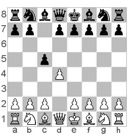 chess diagram Benoni gambit Source: CBlight + my processing